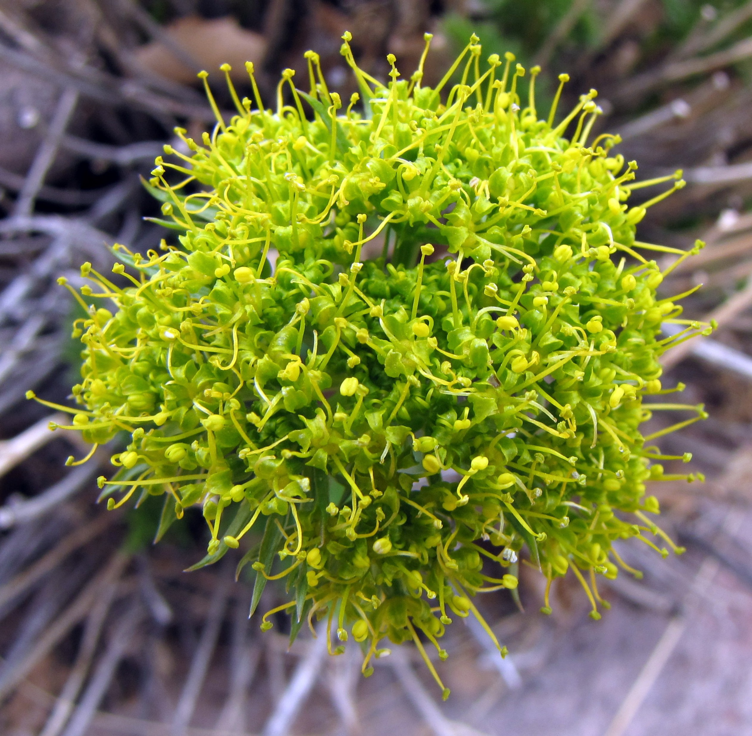 Lomatium parryi. 5 small yellow-green (turn white with age) petals (clustered; compound umbel); 5 sepals or lacking; 5 stamens; 1 pistil; 2 styles; bisexual; flower cluster 0.6” to 1.2” (1.5 to 3 cm) wide; Found in high altidudes of desert scrub.